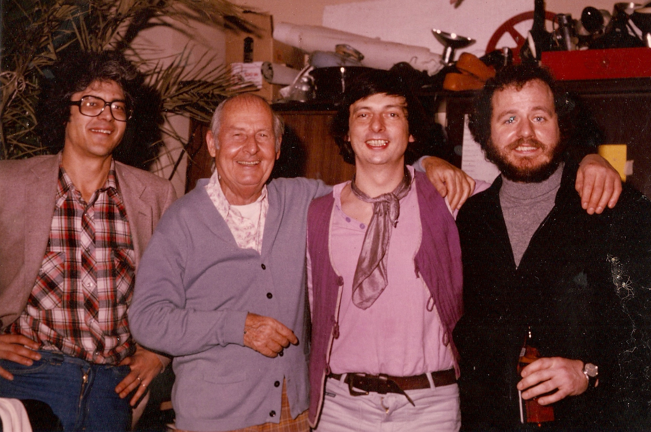 Larry Coryell, Stephane Grappelli, Philip Catherine, Niels-Henning Ørsted Pedersen (from left to right), prob. 1979